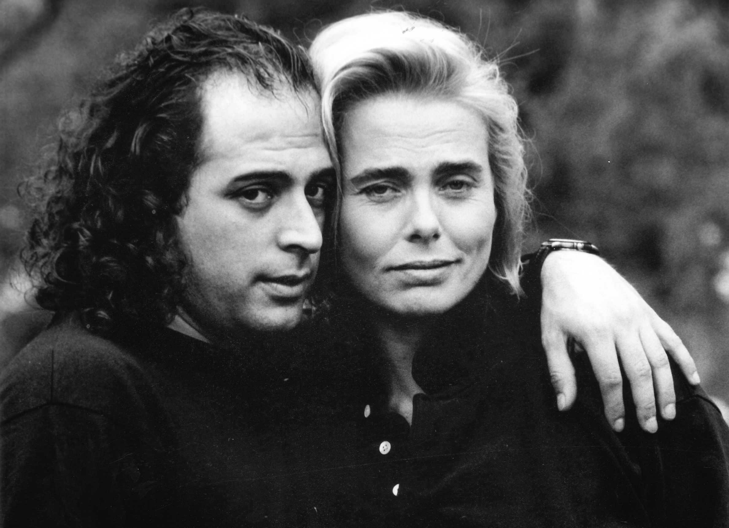 Self portrait of Eduardo Montes-Bradley with Margaux Hemingway.